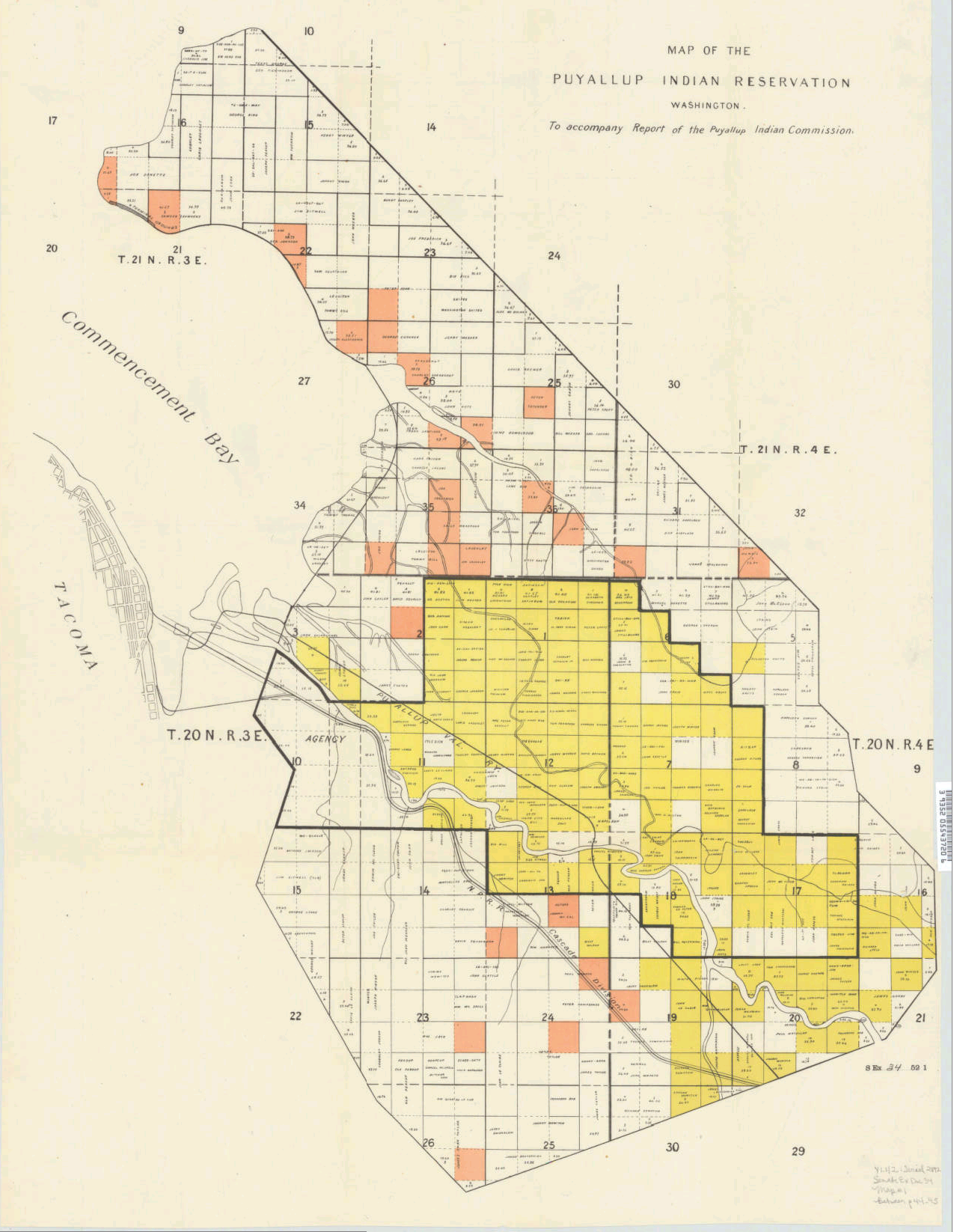 Message from the President of the United States, transmitting the report of the Puyallup Indian Commission and accompanying papers. Washington : G.P.O., 1892. (Ex. Doc. / 52d Congress, 1st Session, Senate ; no. 34). Removed from: Executive documents of the Senate of the United States for the first session of the fifty-second Congress, 1891-'92 Color cadastral map of the Puyallup Indian Reservation, indicating land ownership and acreage of plots. Divided into sixteenth sections. Includes creeks and railroads. Township range is given. Also includes part of Commencement Bay and Tacoma. Indexed in: CIS US serial set index, pt. 14, 2892 (52-1) S.exdoc. 34, map 1. Scale ca. 1:22,500